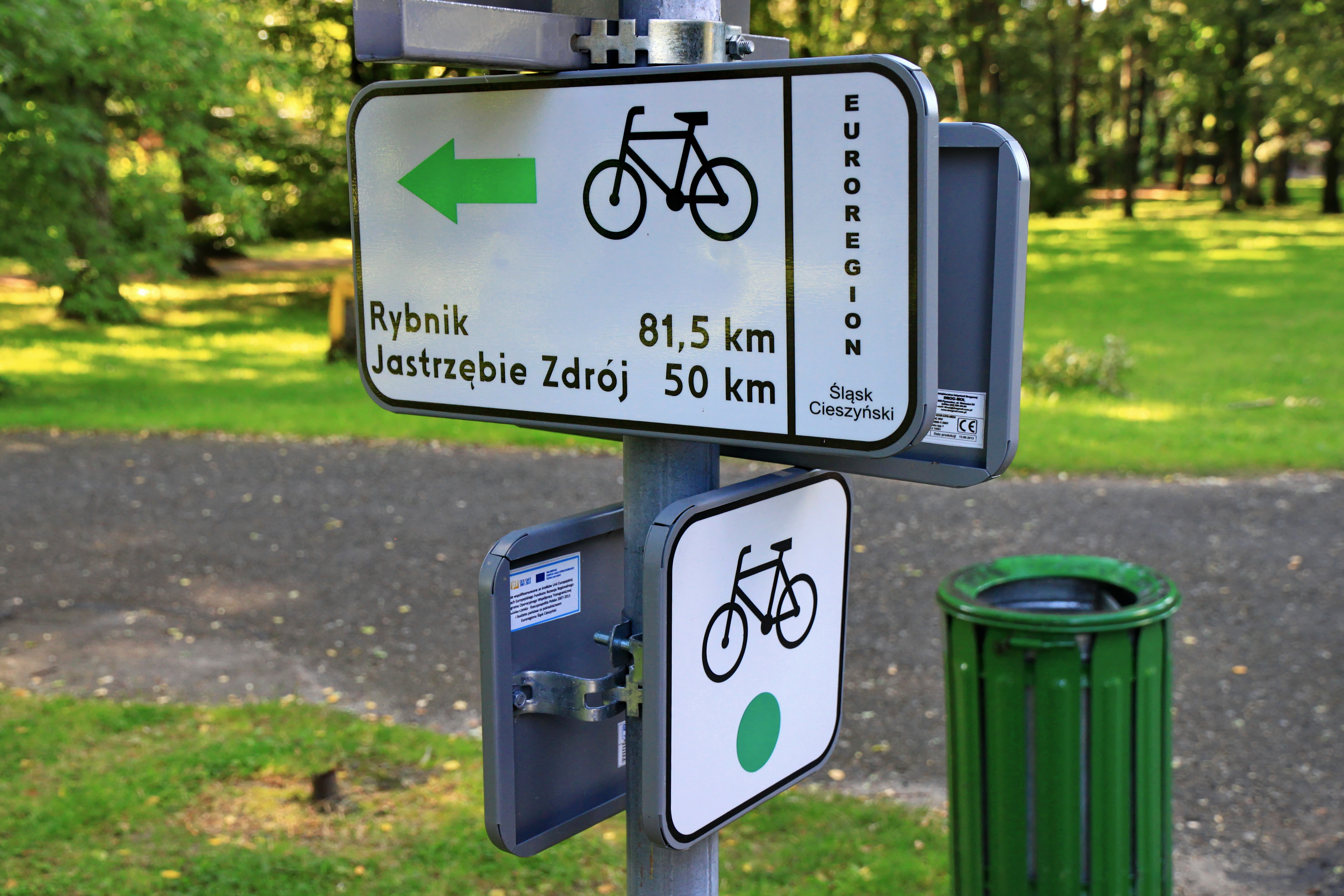 Start of green bicycle route number 13. Ustroń, Aleja Legionów.